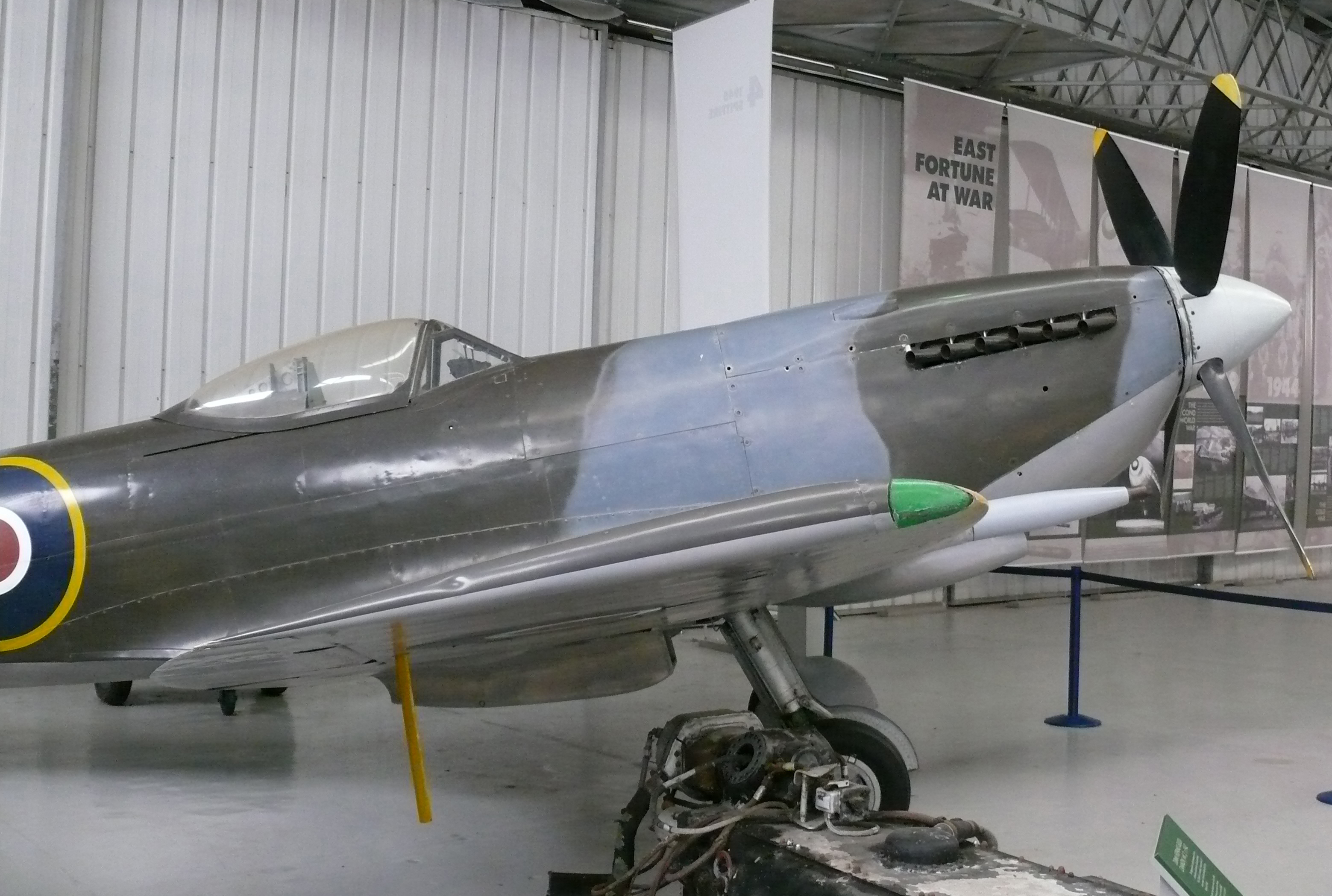 Supermarine Spitfire a British single-seat fighter aircraft used by the Royal Air Force and many other Allied countries throughout the Second World War and champion of the Battle of Britain, in the National Museum of Flight in East Fortune, East Lothian, Scotland. This airplane is a Vickers Supermarine Spitfire LF.XVIe, built in 1945 (TE462 (7243M) c/n CBAF-IX-4596). It is derived from the externally similar LF.IXe, the principal difference being the installation in the Mark XVI of an American Packard built Merlin engine. Unfamiliar features in this type are the blown 'bubble' canopy and clipped wingtips, enabling the aircraft to roll much more quickly. Museum Number T.1971.20